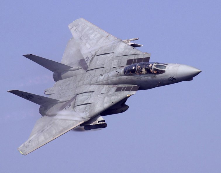 021123-N-SR559-039.ARABIAN GULF - November 23, 2002 --.At sea on board the nuclear-powered aircraft carrier USS ABRAHAM LINCOLN CVN-72, Maj. Gen. Walter E. Buchanan, Joint Task Force Southwest Asia, flew back seat during a familiarization flight with the Fighter Squadron Thirty One Tomcatters. The men and women of VF-31 are attached to Carrier Airwing Group FOURTEEN (CVW-14) in the Arabian Gulf in support of OPERATION SOUTHERN WATCH. U.S. Navy Photo by Photographer's Mate First Class (AW) Willie Davis. RELEASED.)